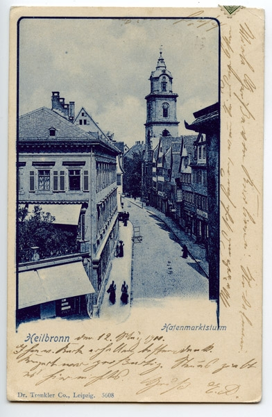 s.o.